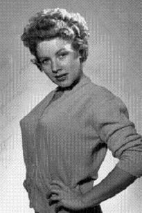 Promotional Photo